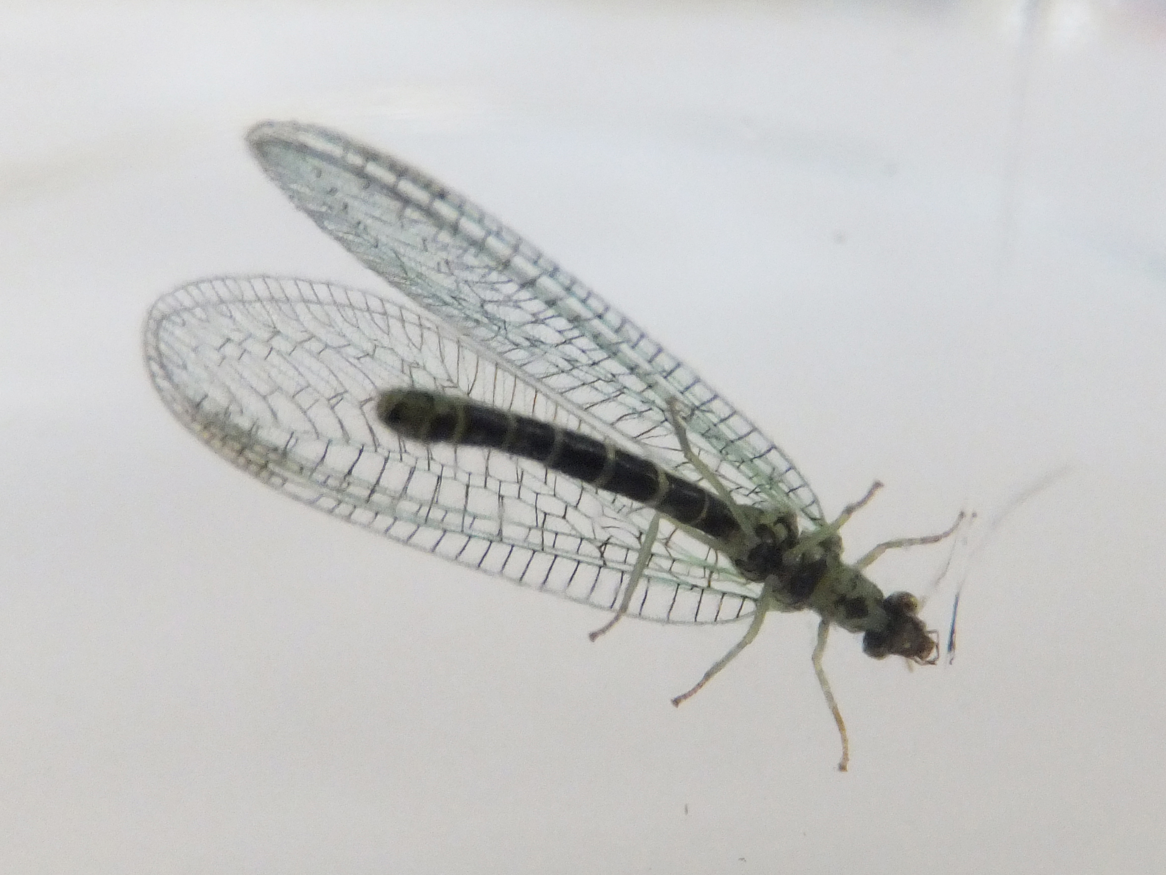 A male Green Lacewing (Chrysopa perla) photographed in Piazzo (Segonzano, Italy) - Ventral view